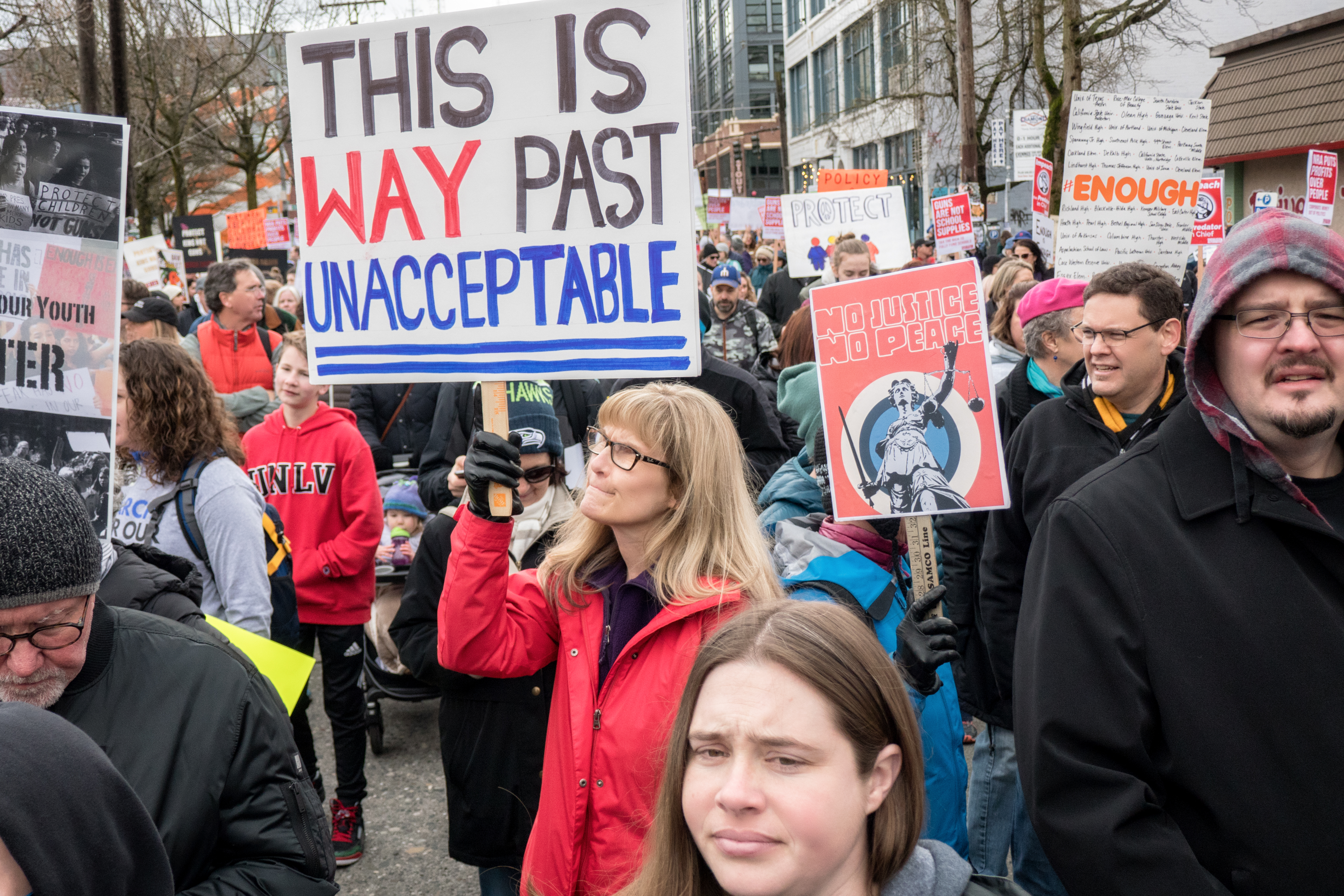 March for Our Lives on 24 March 2018 in Seattle, Washington